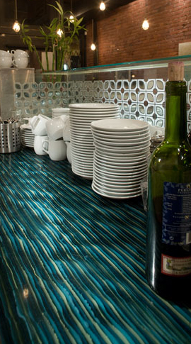 Glass slab made by strips of plate glass heated to the softening point of glass.